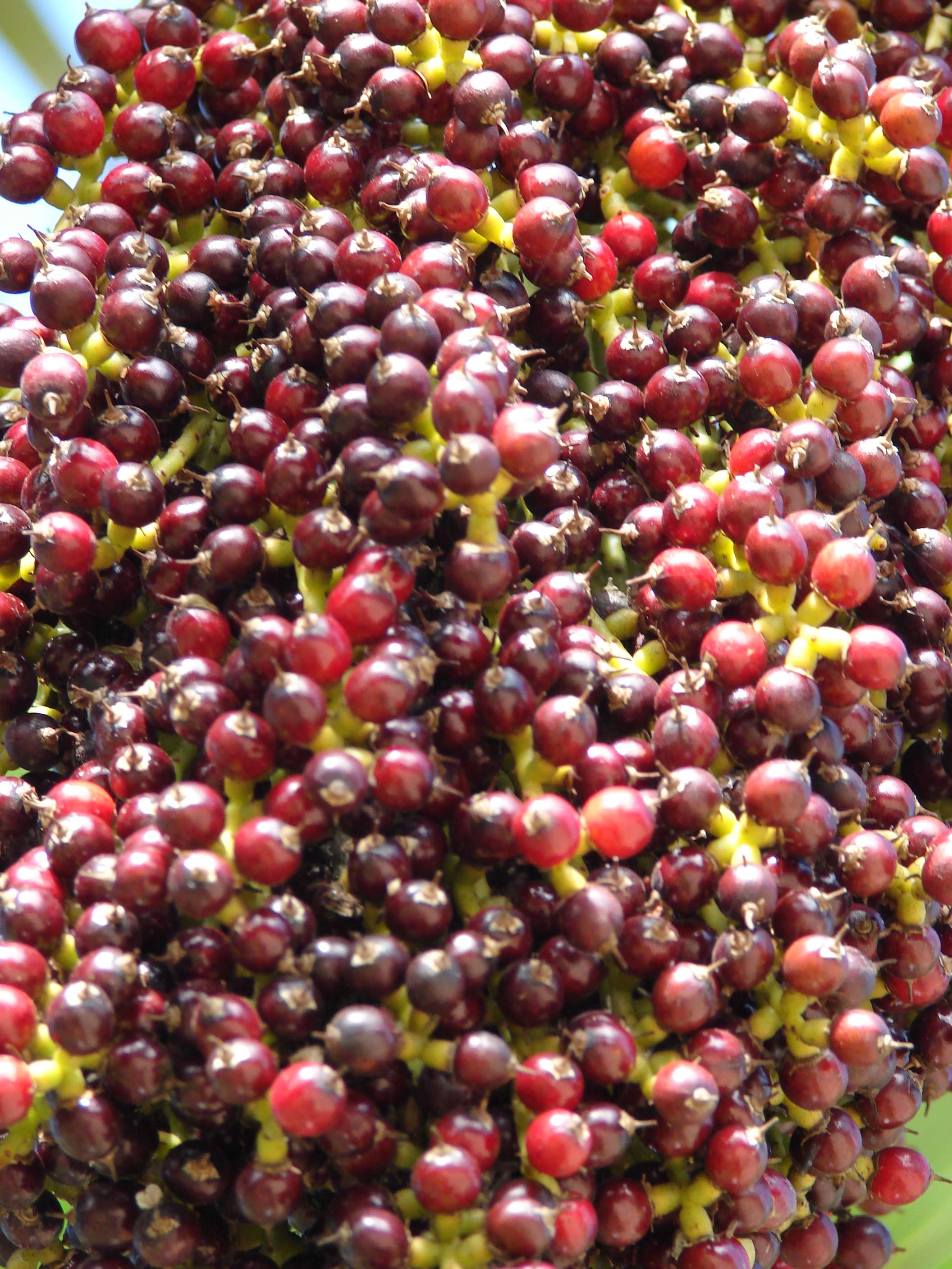 Pritchardia thurstonii (fruit). Location: Maui, Maui Nui Botanical Garden